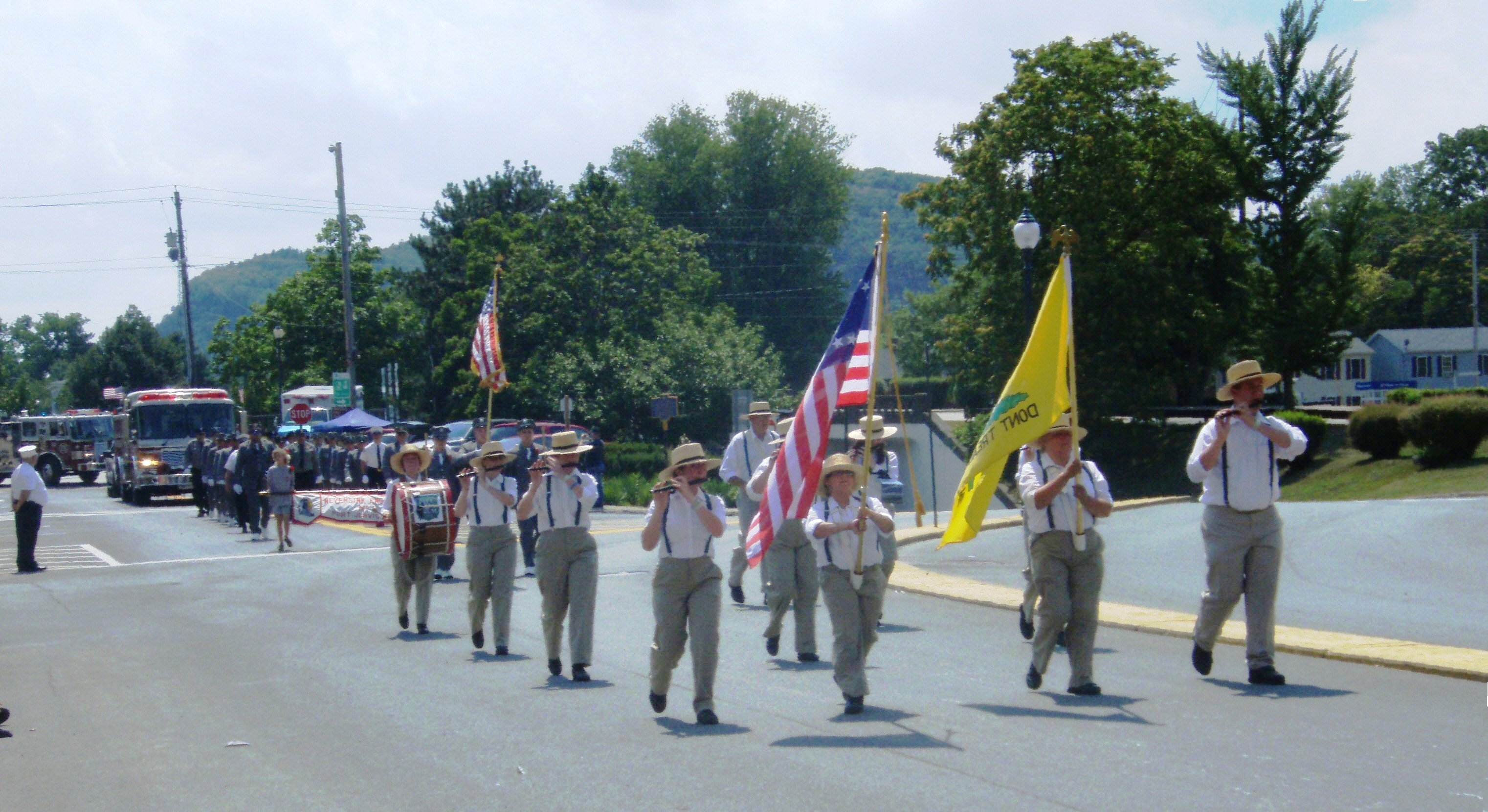 The 100th anniversary parade at Port Jervis, New York on July 14, 2007. Picture taken by User:NHRHS2010 as part of his longest bike ride ever.